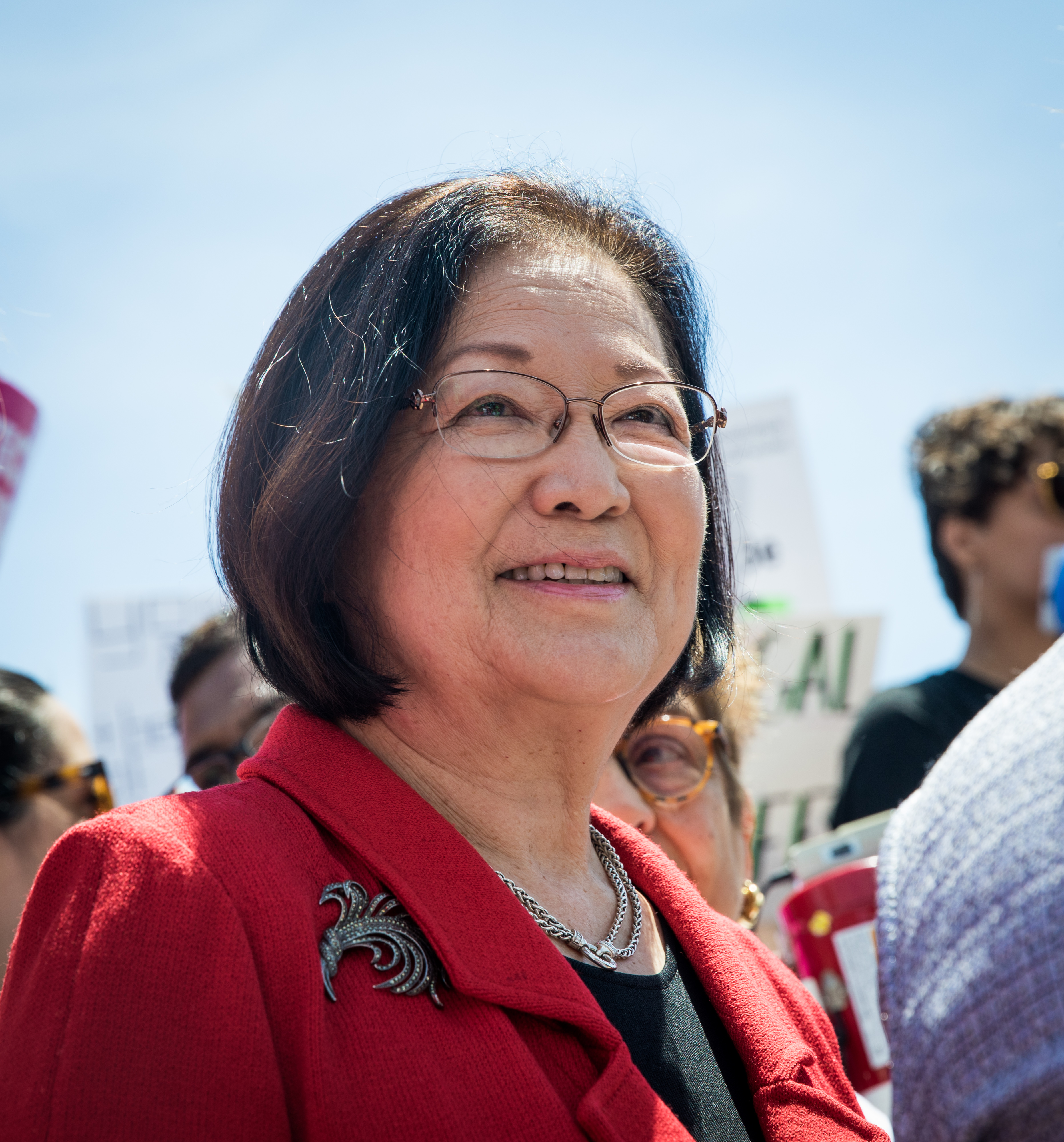 U.S. Senator Mazie Hirono at the 2019 Stop the Bans Rally at the U.S. Supreme Court in Washington D.C.